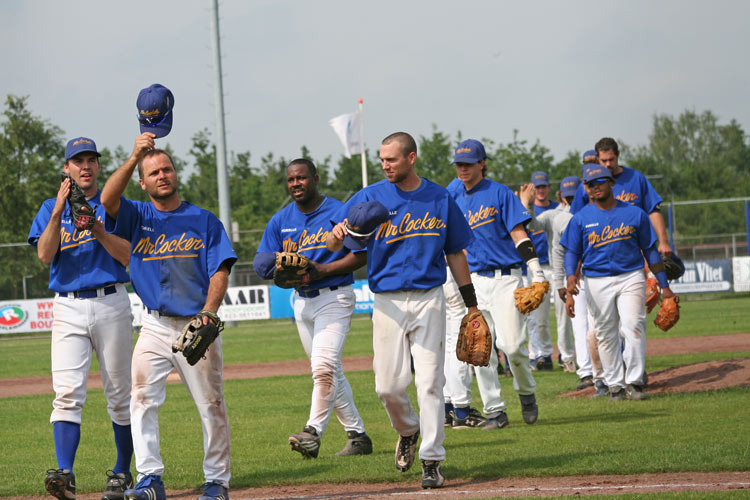 HCAW team in 2007